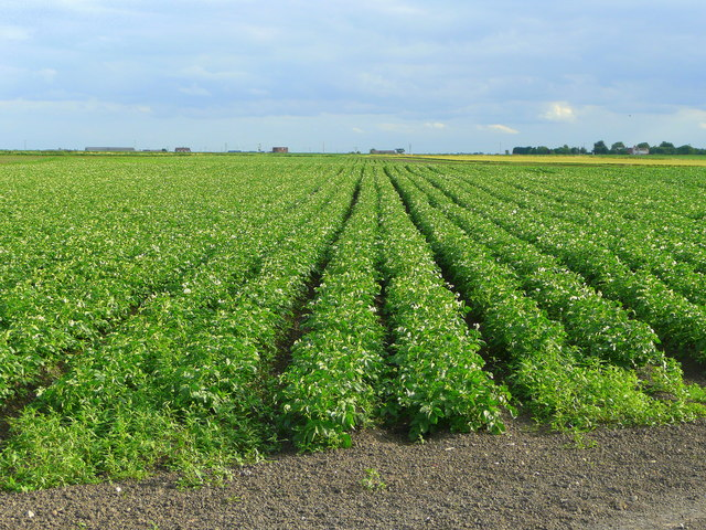 Potato prairie View south in White Fen. The photographer is grateful to the landowner for access to this private land.